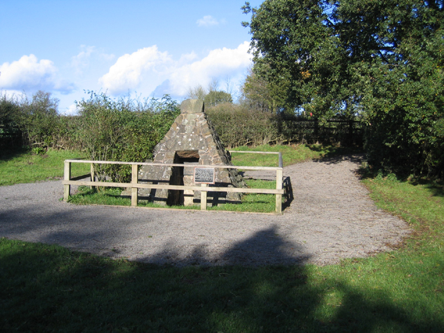 King Richard's Well is where Richard III is reputed to have drunk before the Battle of Bosworth; the present cairn was restored in 1964.